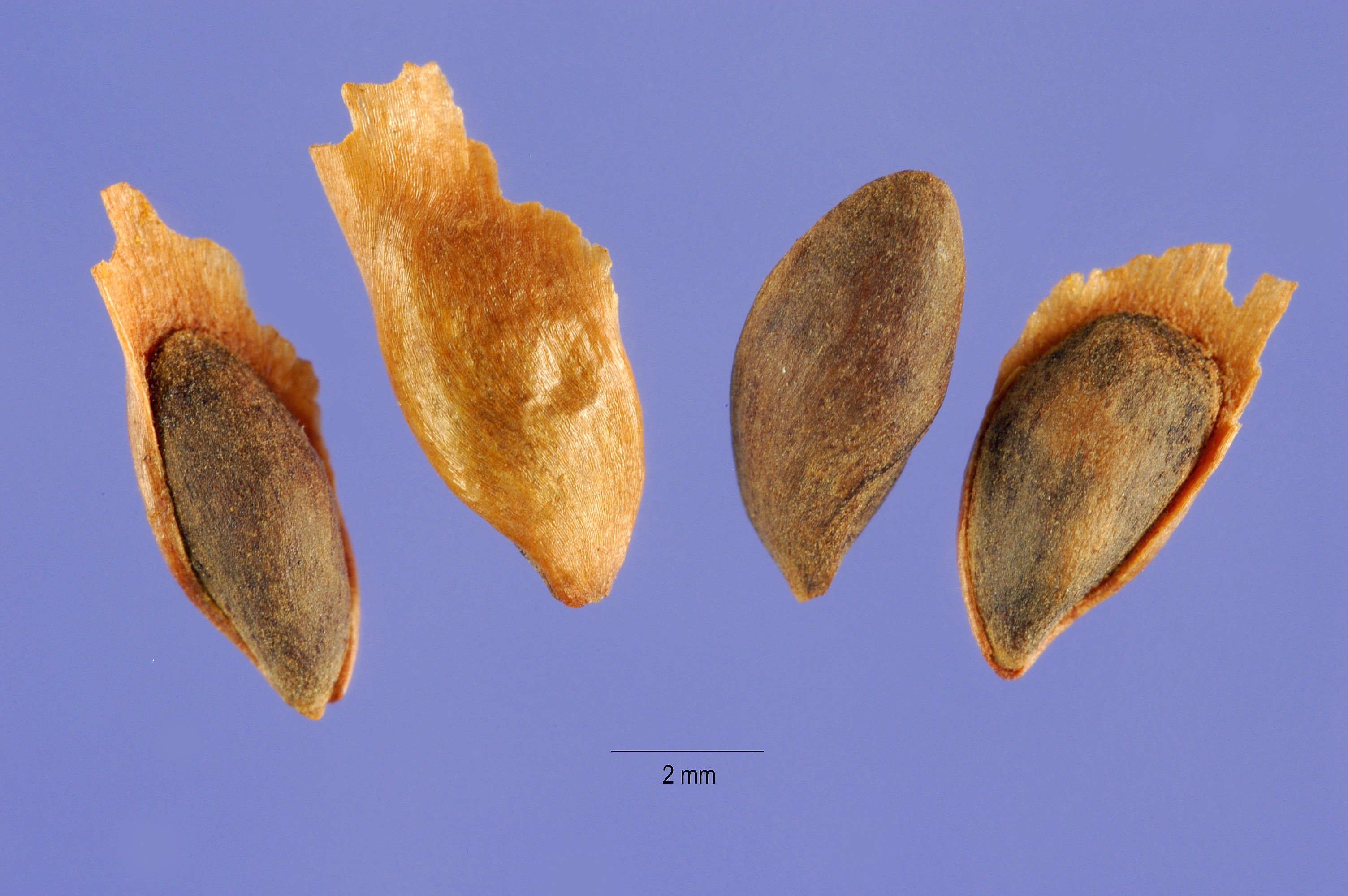 Seeds of Picea breweriana